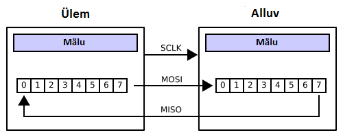 SPI 8-bit circular transfer scheme in Estonian